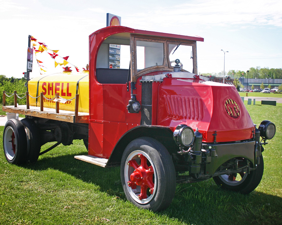 A Mack tank truck in Wisconsin